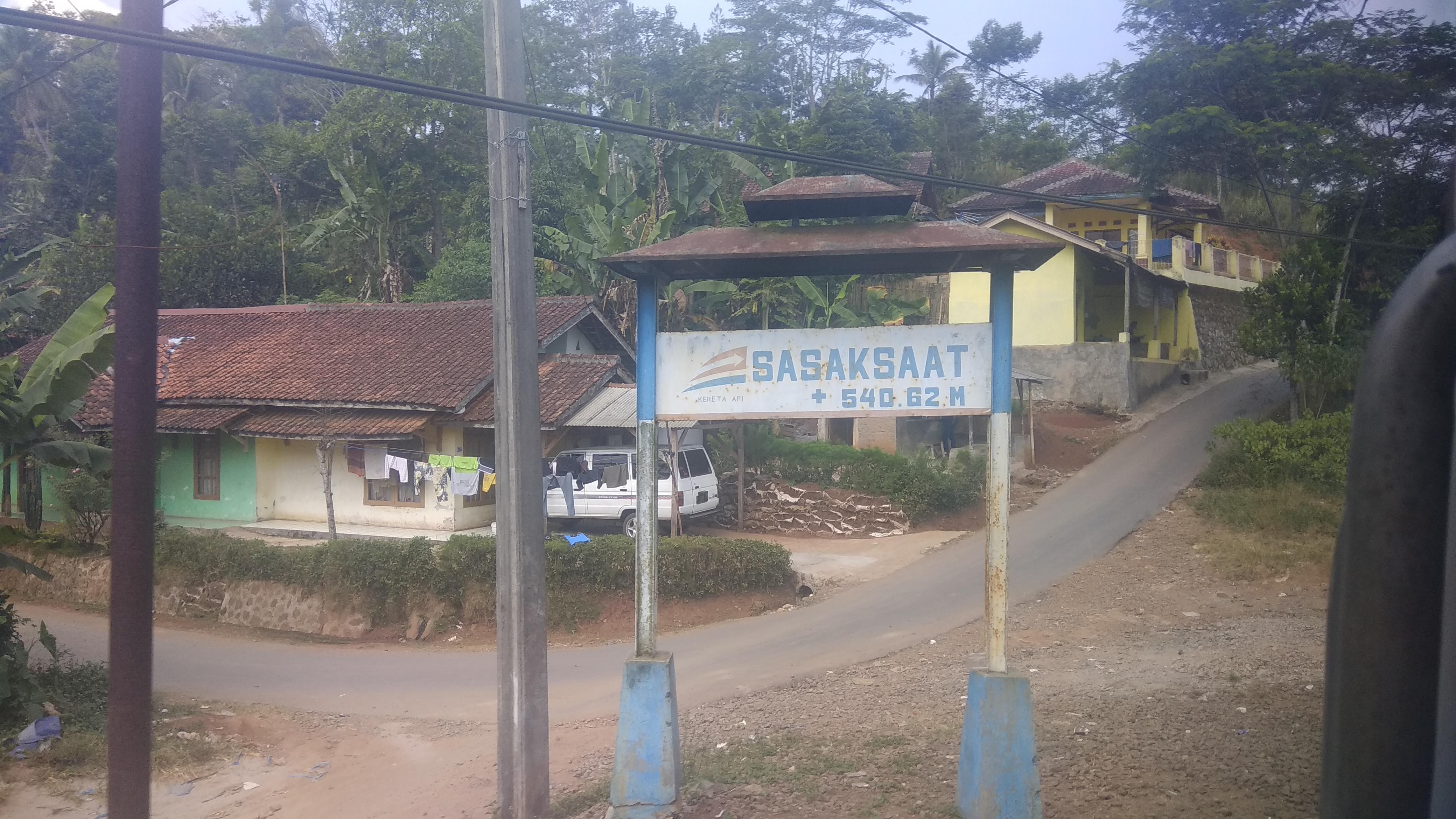 Saksaat train station board name